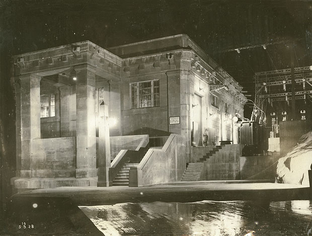 Power house at Burrinjuck Dam Dated: 05/09/1928 Digital ID: 4346_a020_a020000277 Rights: We'd love to hear from you if you use our photos. Many other photos in our collection are available to view and browse on our website using Photo Investigator. Description - Use title of image as listed in PI Dated: Day Month Year or No date Digital ID: [COPY AND PASTE DIGITAL ID SEARCH URL DI Number] You can use this image for research and study. We are also happy for you to use our Flickr photos on your blog or website - all we ask is that you cite (and link to) them using the Digital ID number that is listed in the image description. This ensures visitors can get back to the original source. We'd love to see any State Records items you feature on your blog so make sure you drop us an email with a link to your post. If you wish to reproduce this image for other purposes please contact us. Many other photos in our collection are available to view and browse on our website using Photo Investigator.